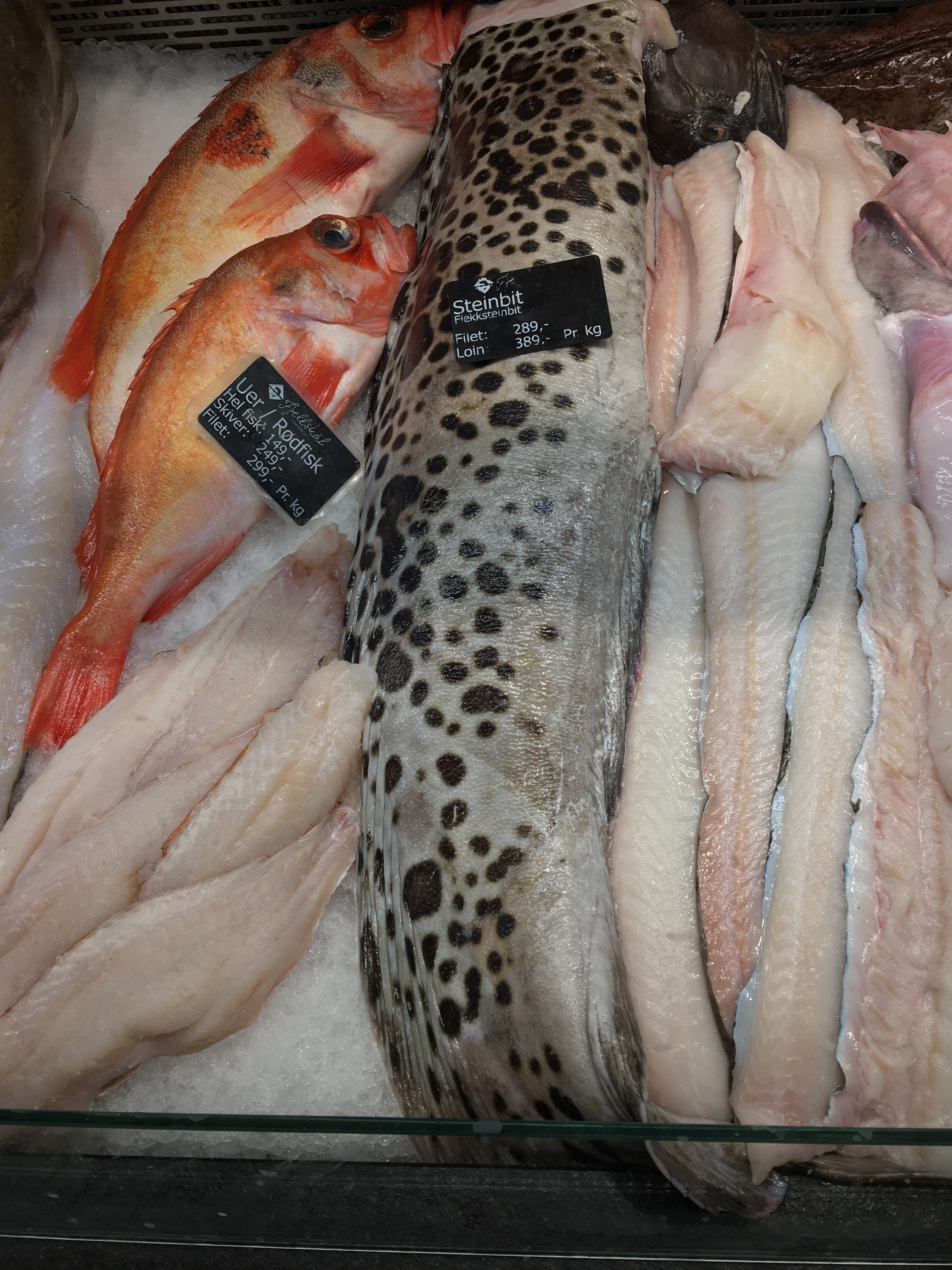 Fiskebryggen, Mathallen, Fishmarket, Bergen, Norway 2018-03-16. Sebastes marinus (uer/rødfisk), Anarhichadidae (steinbit), etc. displayed for sale at Fjellskål sea food store